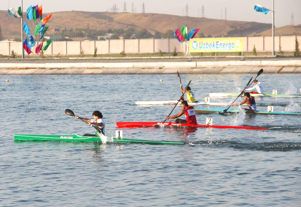 Mohammad Abubakar Durrani clearly leading in K,1 200 M semi final race in 15th Asian Canoe Sprint Championship Samarqand Uzbekistan